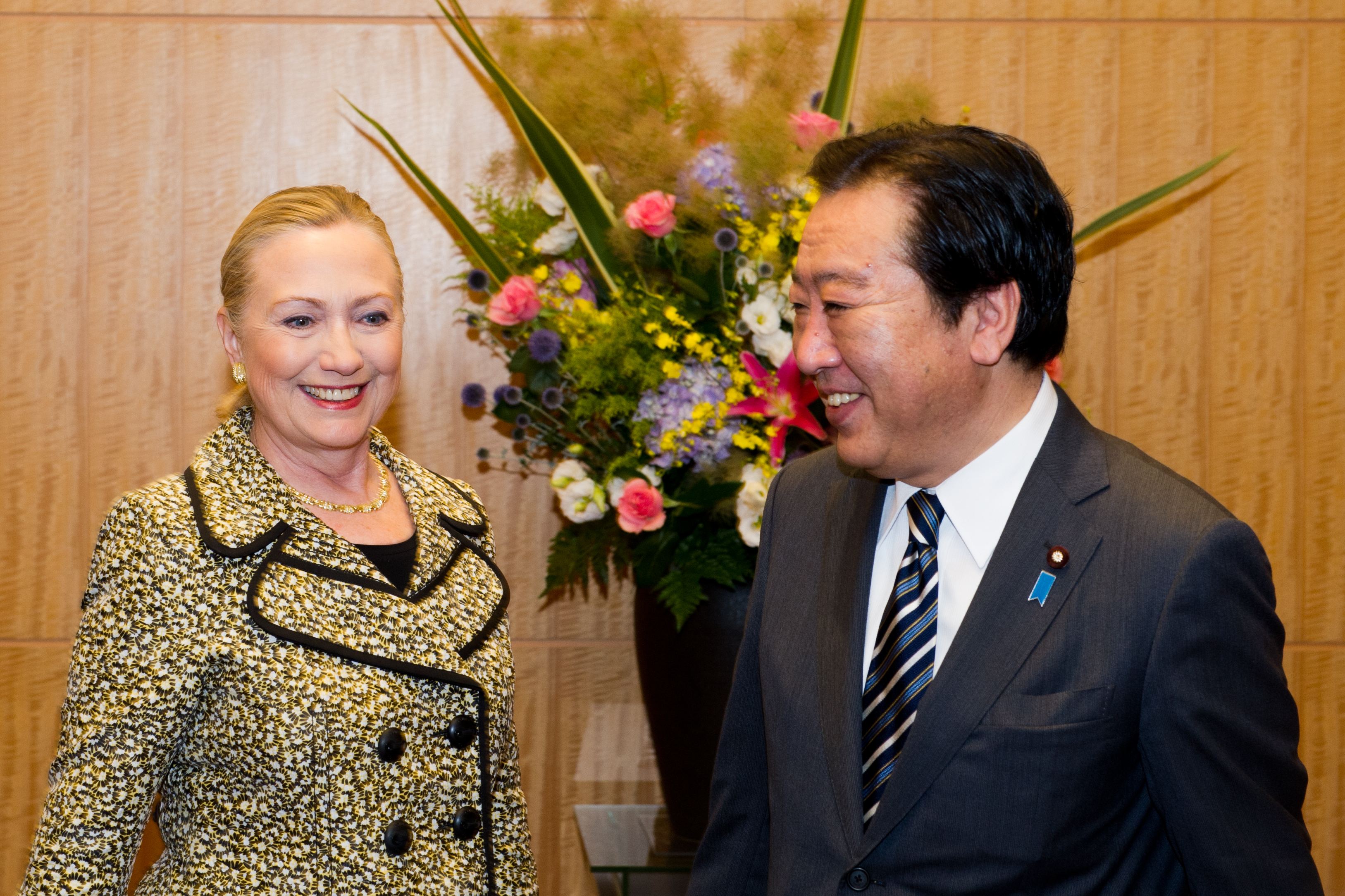 TOKYO, Japan (July 8, 2012) Secretary of State Hillary Clinton Meets with Japanese Prime Minister Yoshihiko Noda at the sidelines of the Tokyo Conference on Afghanistan [State Department photo by William Ng]